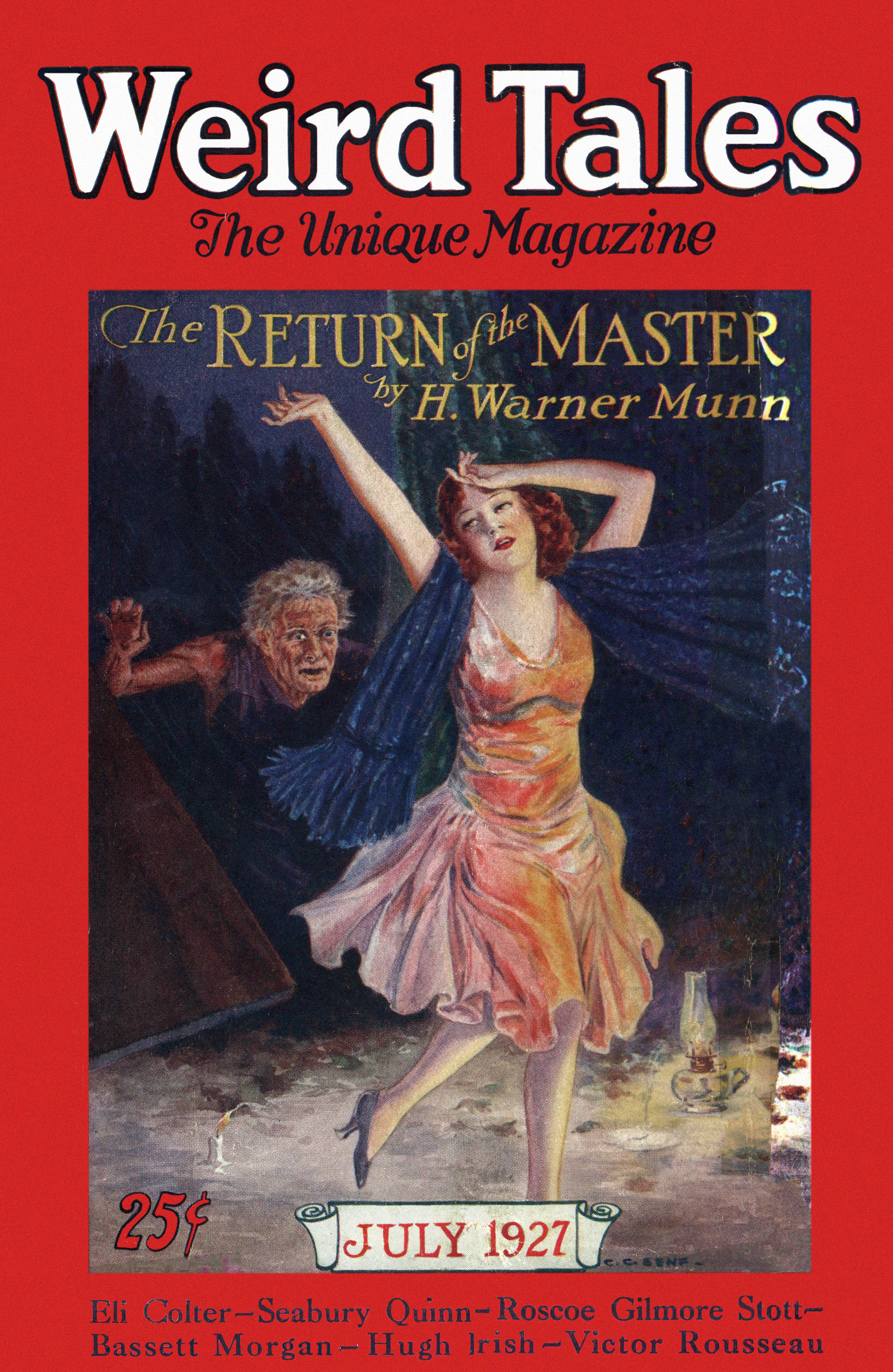 Cover of the pulp magazine Weird Tales (Jul 1927, vol. 10, no. 1) featuring The Return of the Master by H. Warner Munn.